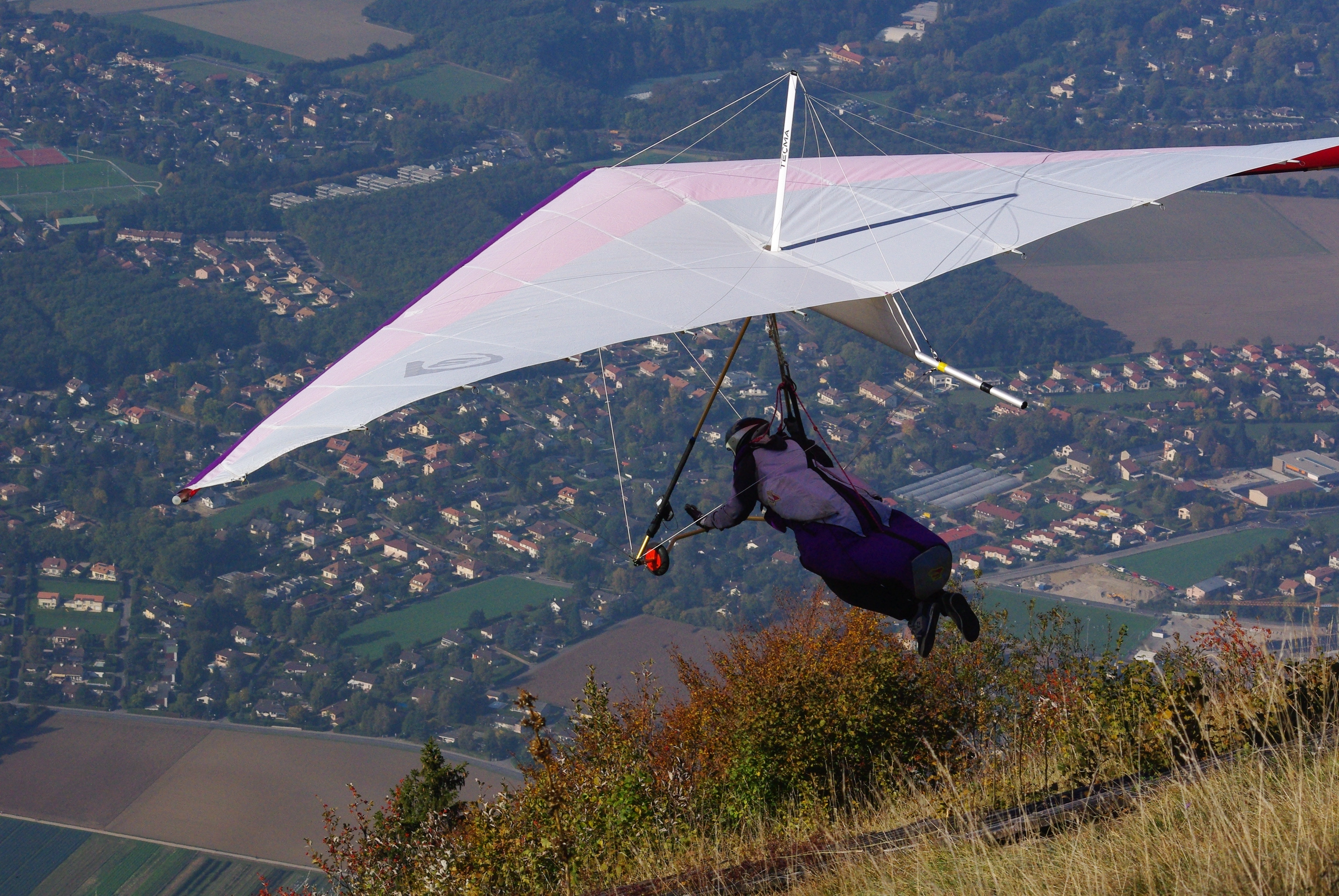 Hangglider departing from Salève near Geneva